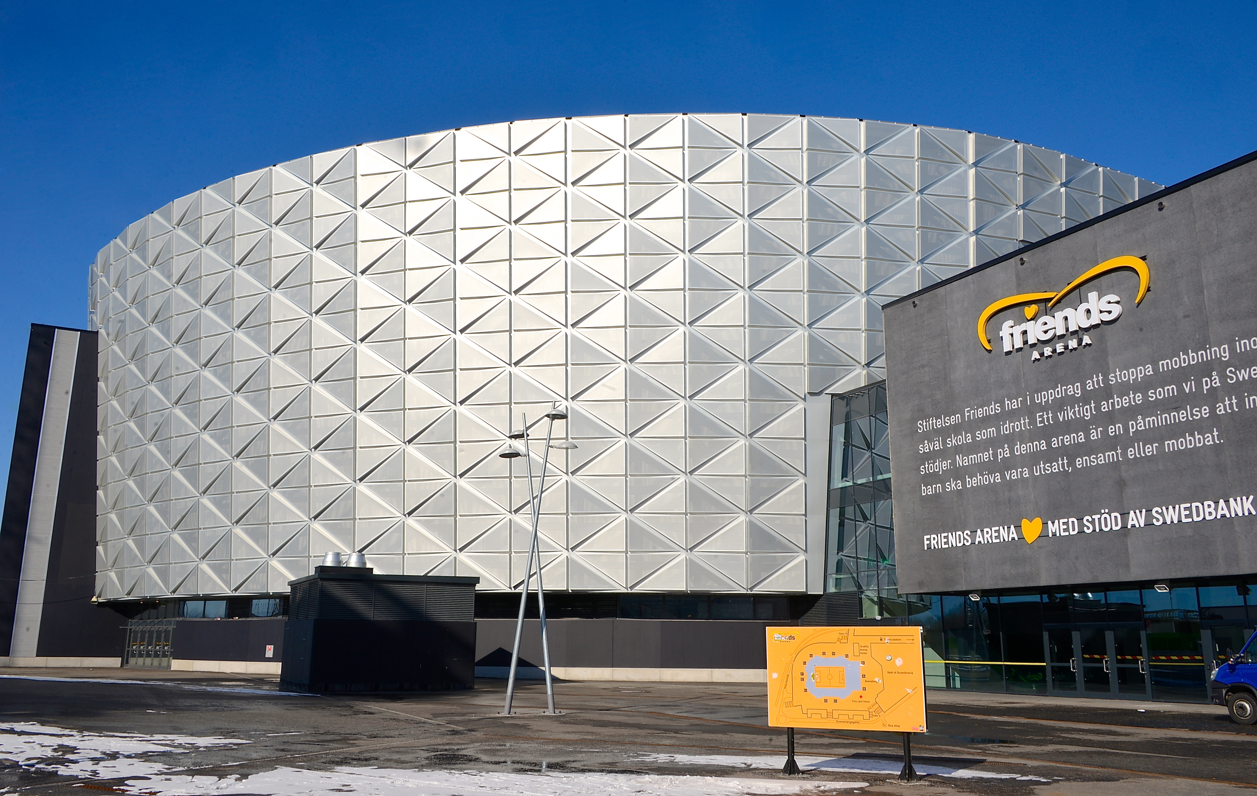 Friends Arena in Stockholm mars 21th 2013.